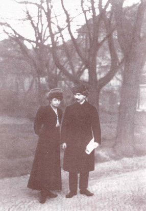 Jaroslav Hasek with his first wife Jarmila Hasekova